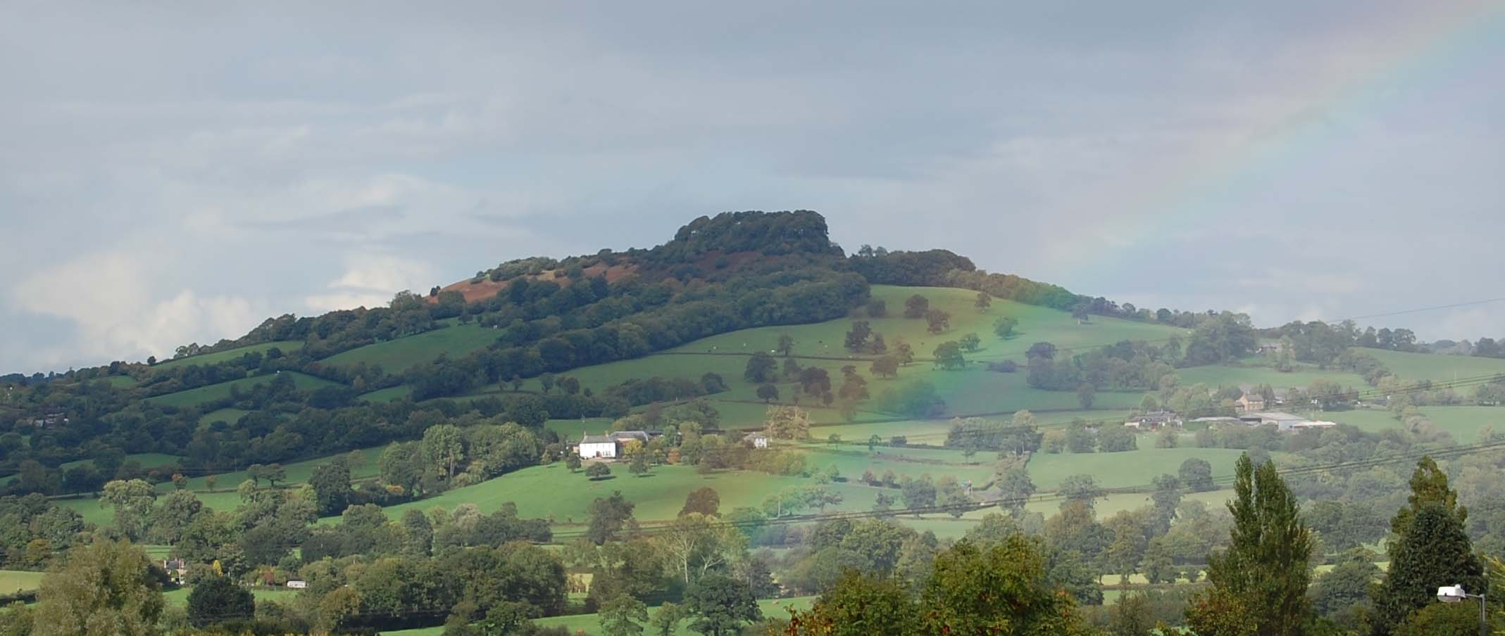 Photo of Dumpdon Hill, National Trust Property, Devon